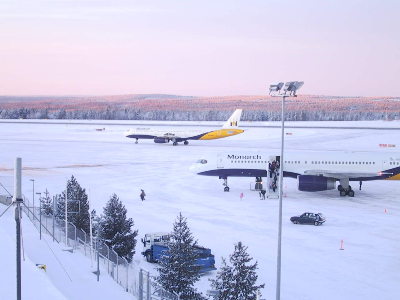 Rovaniemi Airport at Arctic Circle at noon. Day of the winter solstice 2004. Monarch company's charters.